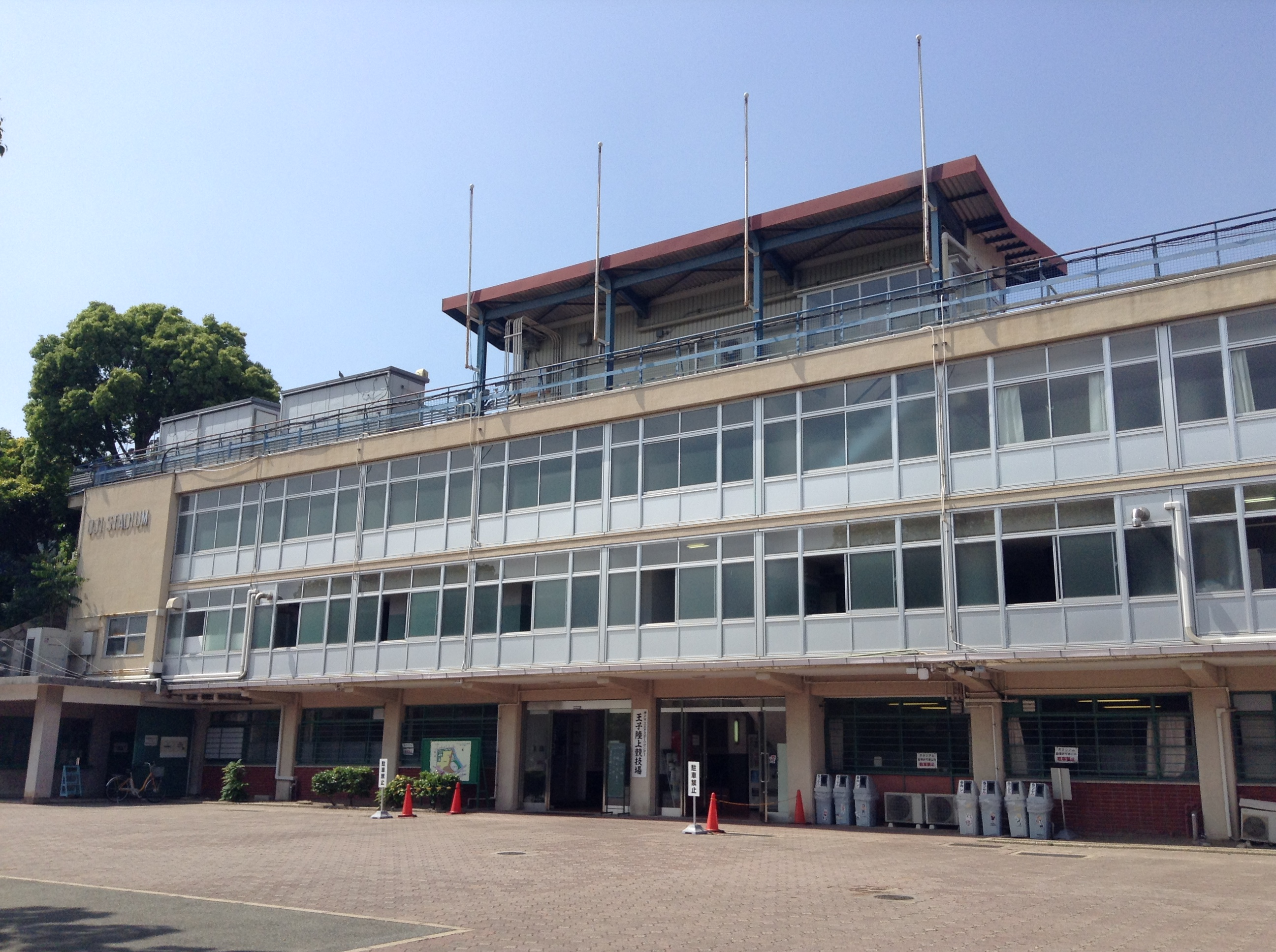 main entrance of Oji Sports Center Stadium